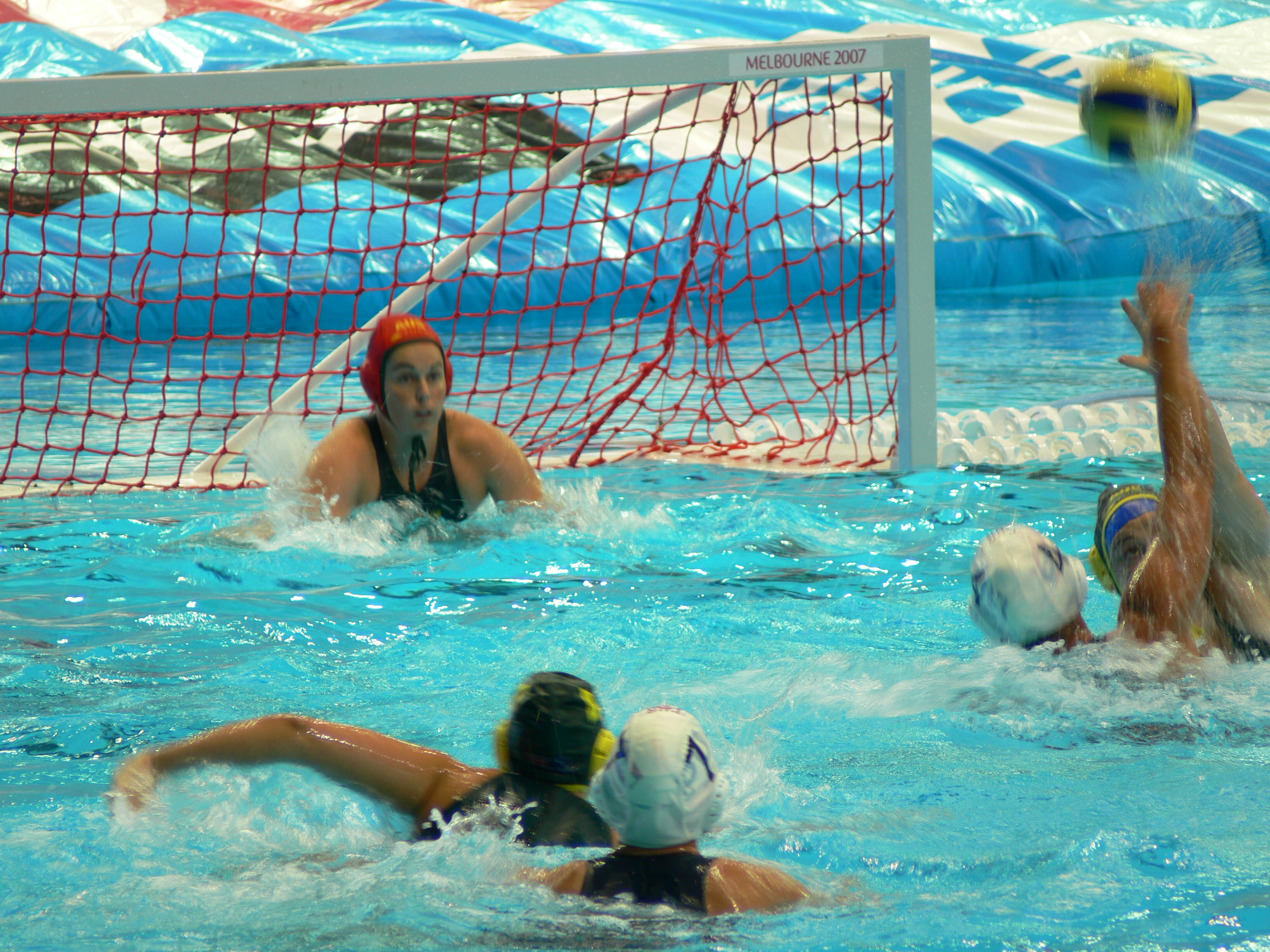 World Swimming Chanpionships, Water Polo, Melbourne 2007